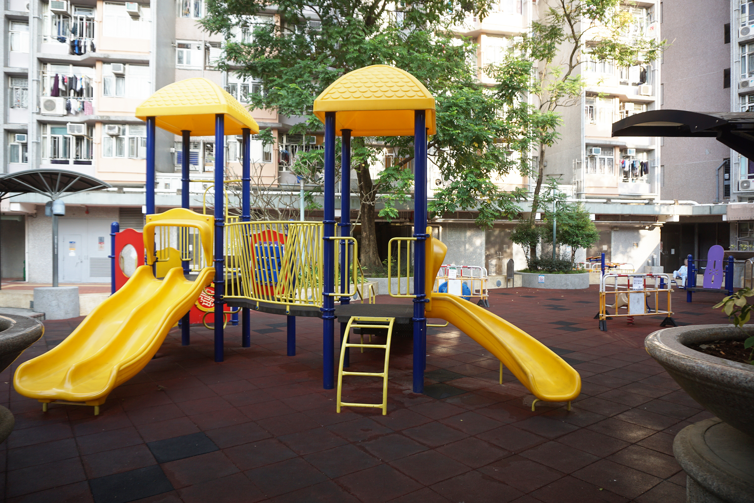 Lee On Estate in Wu Kai Sha, Hong Kong.